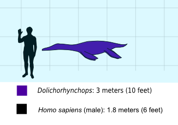 Dolichorhynchops scale